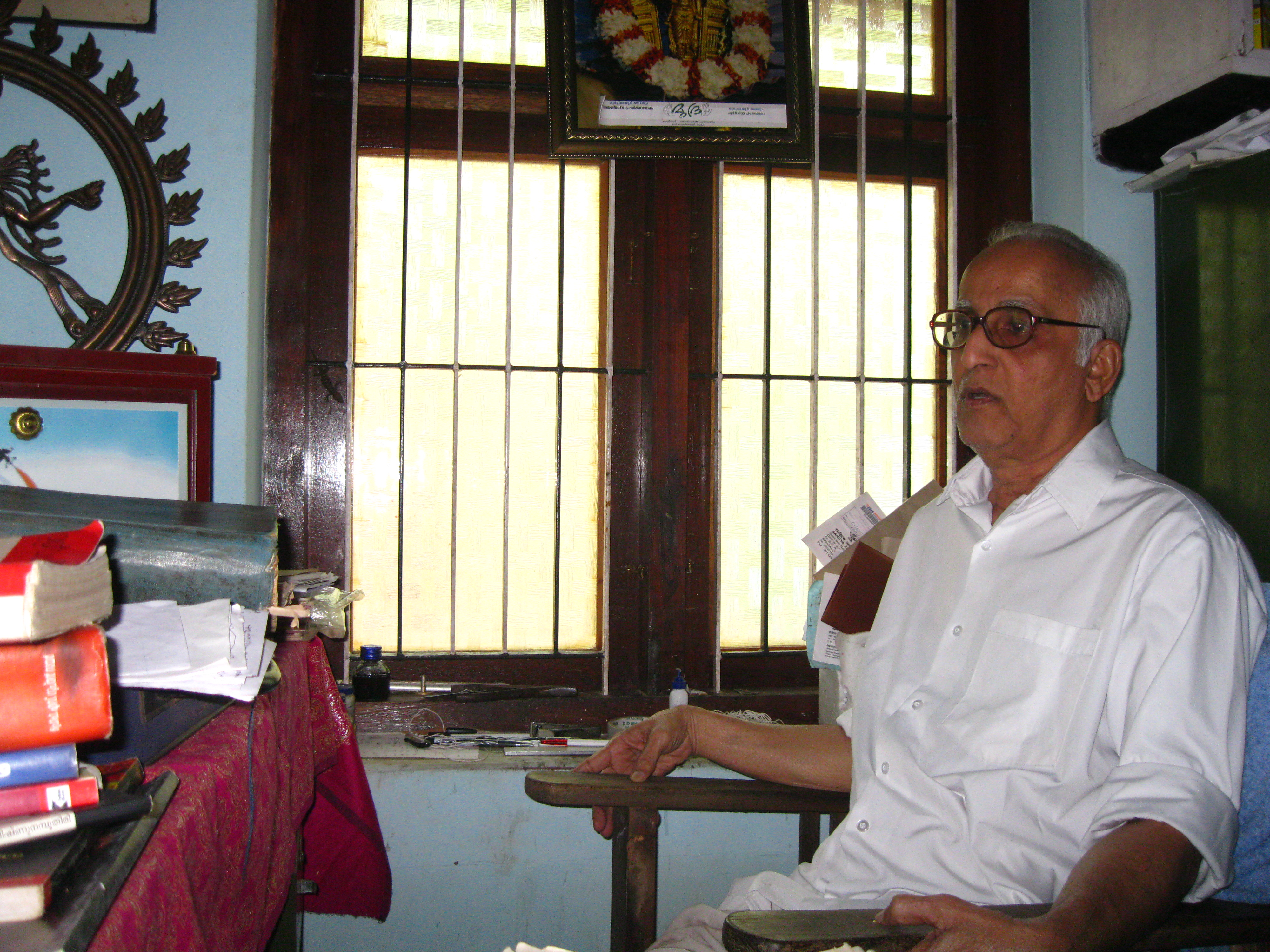 folklorist kerala